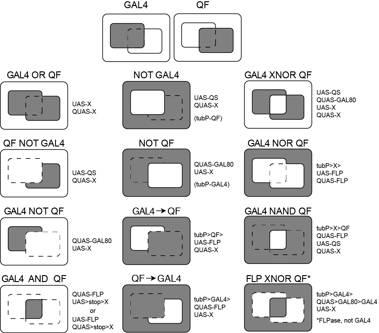 GAL4 and QF are expressed in different yet overlapping subsets of cells in an organism as denoted by the square boxes. 12 different expression patterns are possible using a combination of genetic components. These represent logic gates of expression between GAL4 and QF.